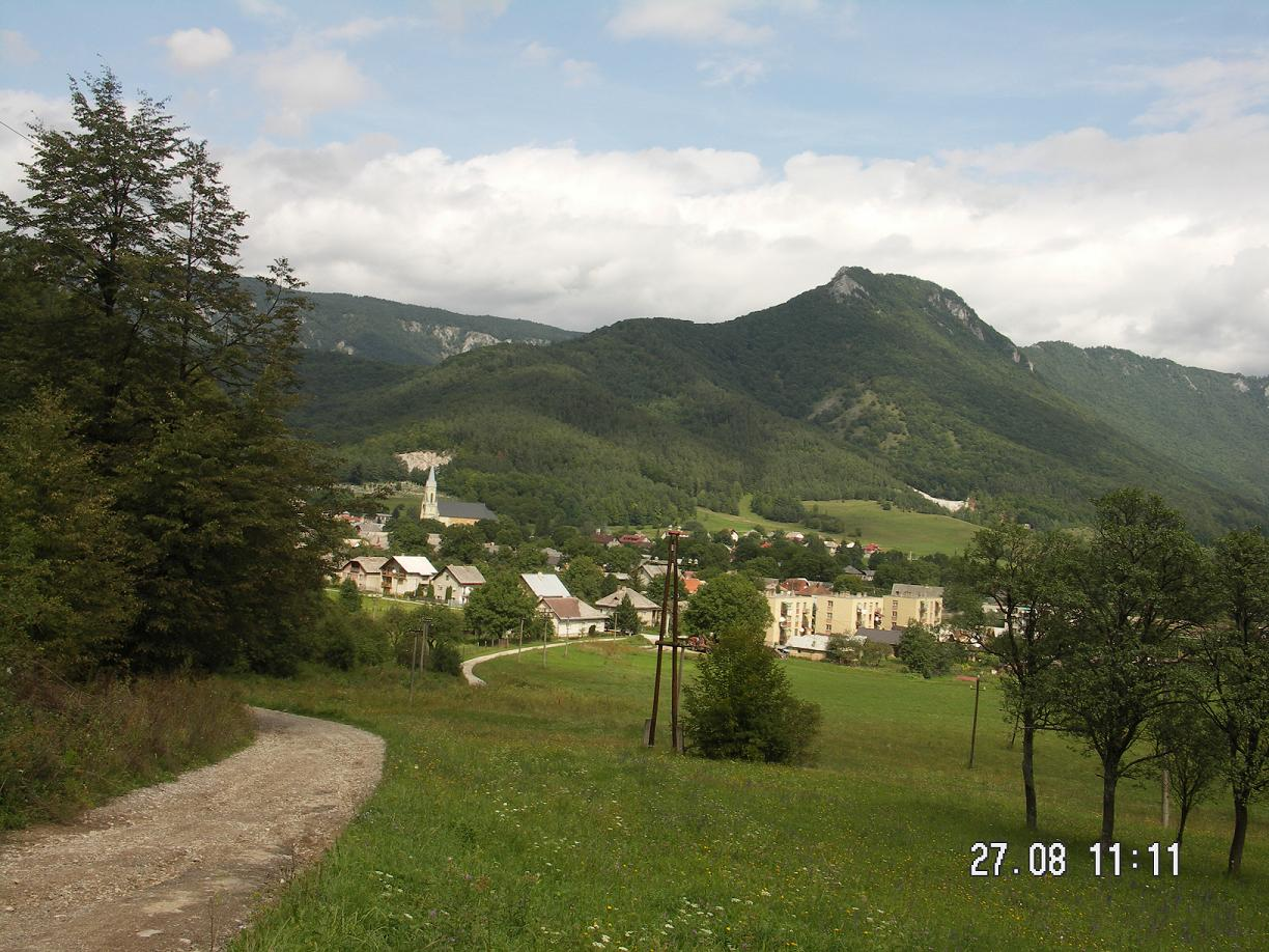 hill Ciganka with the ruins of Castle Muran